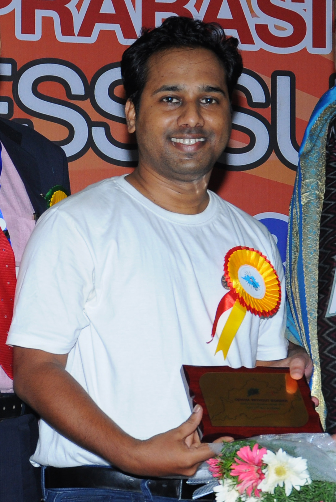 Photo of Director Biswanath Rath being honoured at Prabasi Odia Business Summit, Chennai on 23rd April 2017